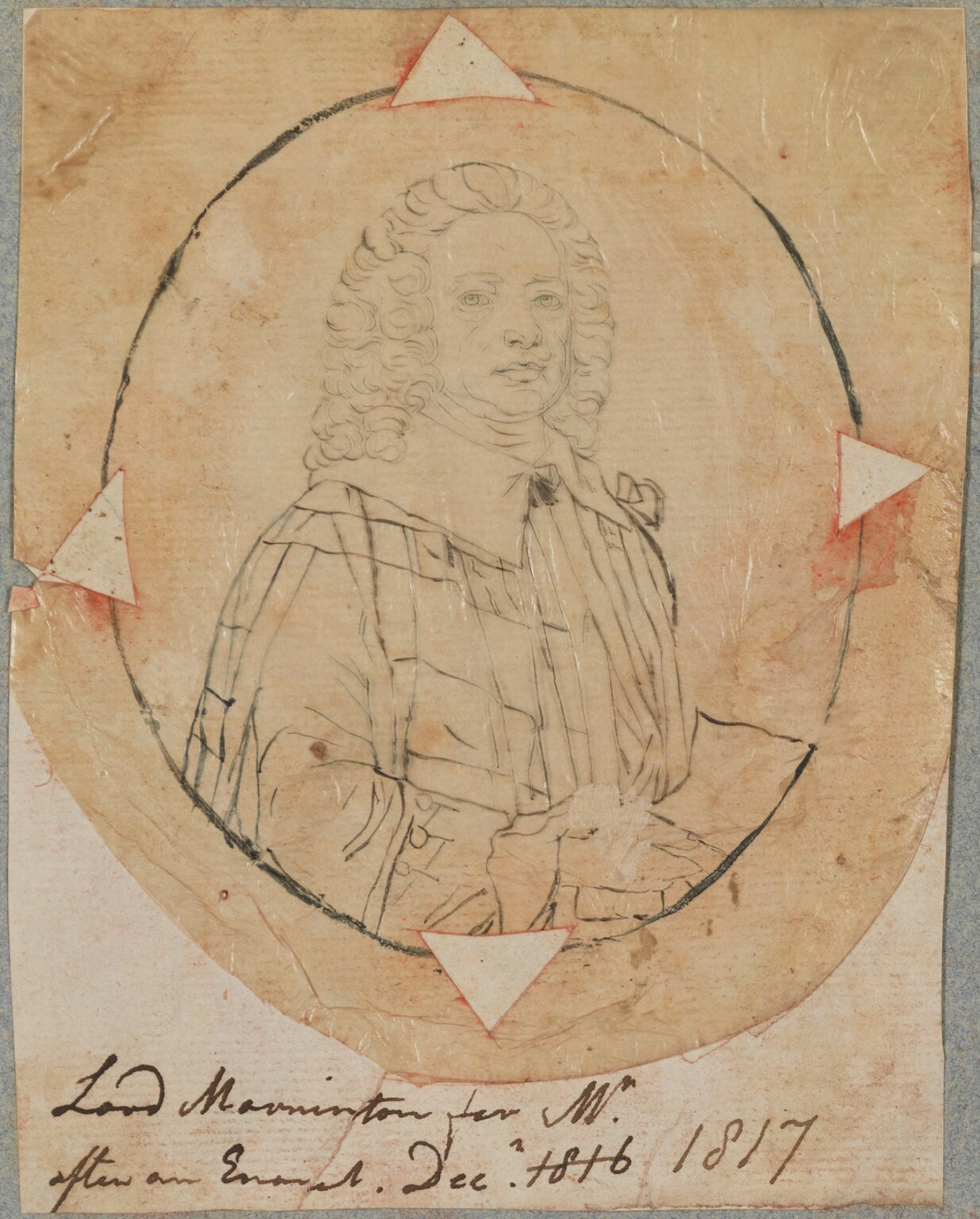 by Henry Pierce Bone, after Unknown artist, pen and ink, December 1817